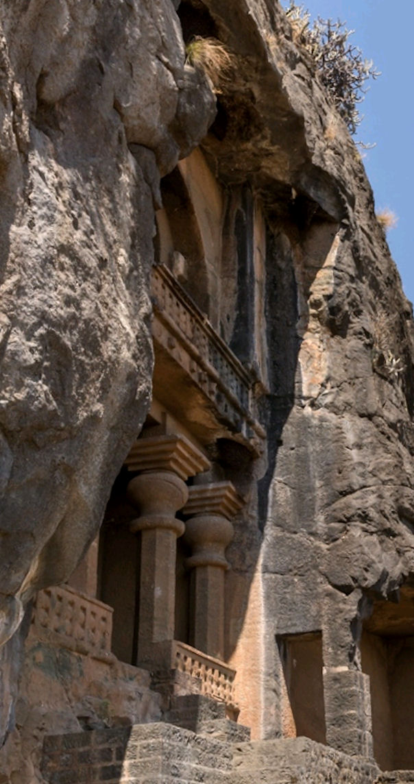 Bhimasankar group Chaitya. Larger view